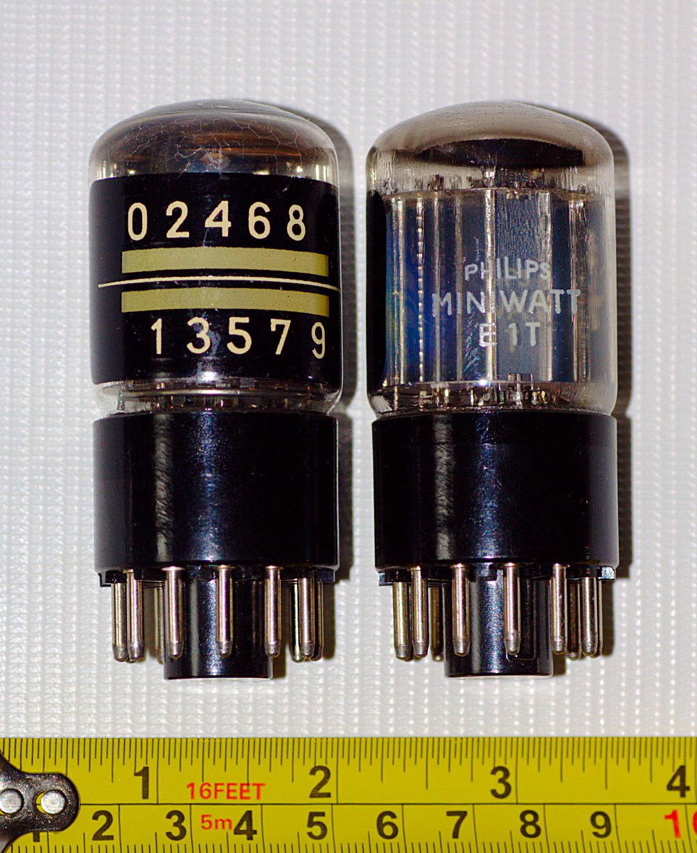 Vacuum tube Philips E1T (decade counter)